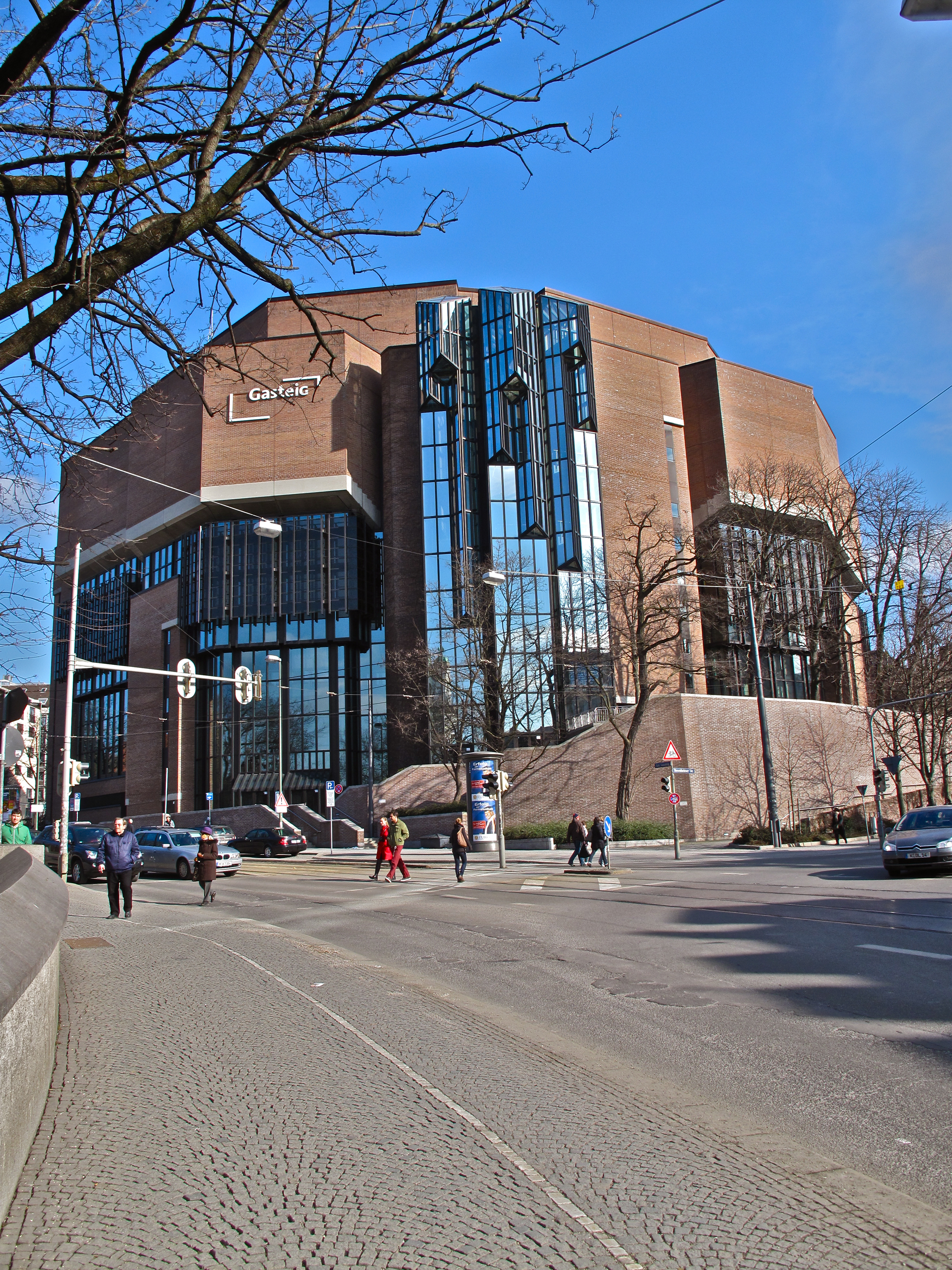 The Philharmonie of the Gasteig (cultural centre of the city of Munich).